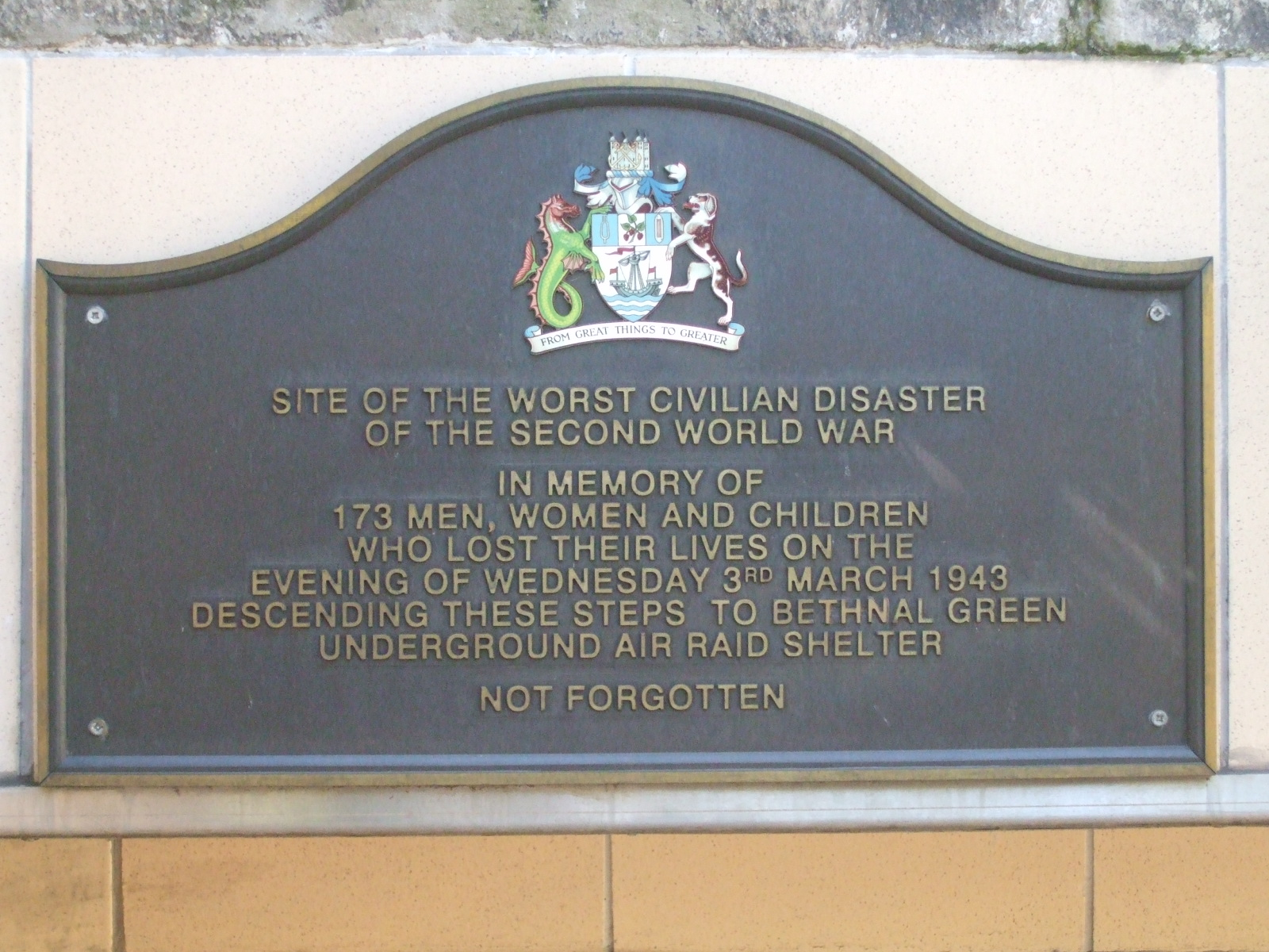 Memorial plaque commemorating the victims of an accident on the southeastern staircase of Bethnal Green tube station during an air raid alert in 1943.